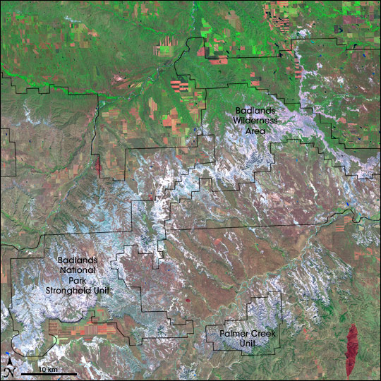 False-color satellite image of Badlands National Park. Vegetation appears bright green, while bare or thinly vegetated ground is tan or pink. Given the time of year, the pink rectangular features are most likely fields that have have been cleared of their summer crops. The bluish-white areas are bare rock surfaces of buttes and spires which form the spine of the parkland. The deep magenta vertical stripe in the lower right image is burn scar from a fire.